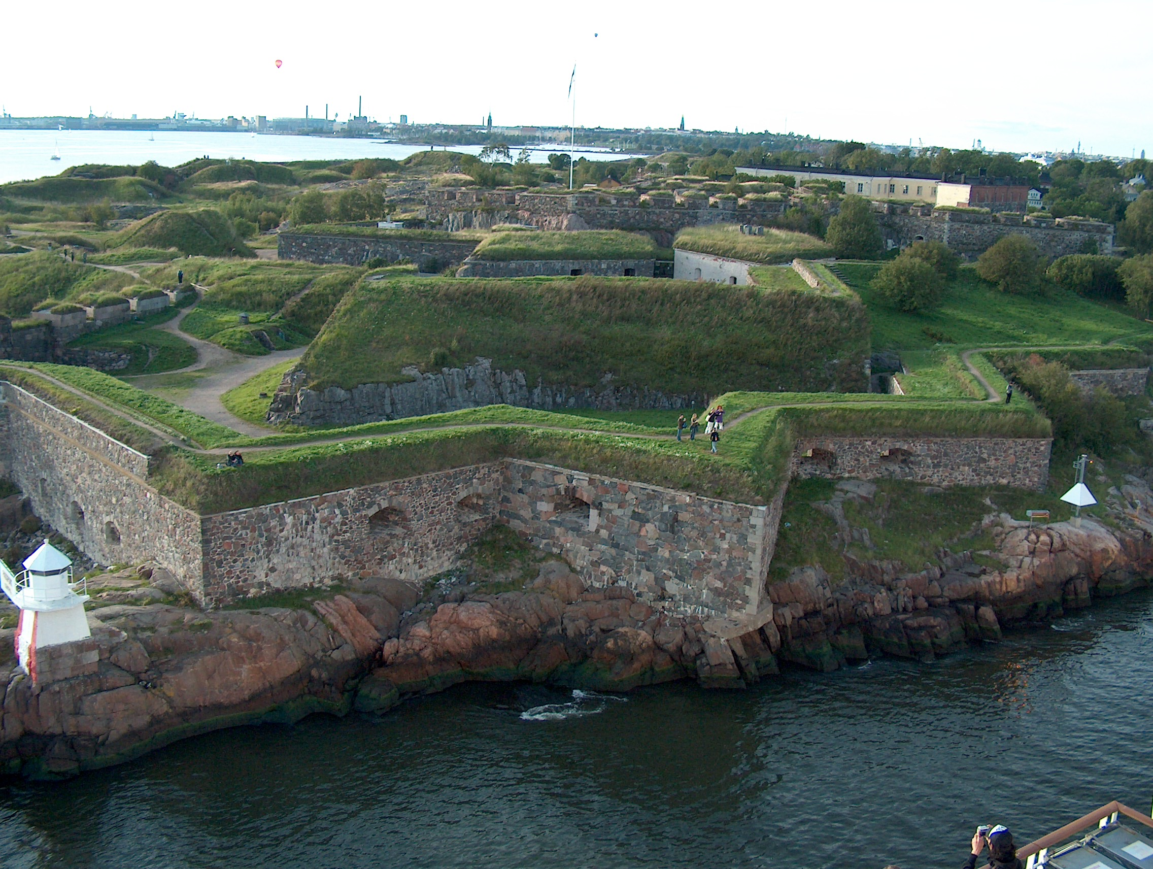 Fortress of Suomenlinna in Helsinki in one of UNESCO World Heritage Sites